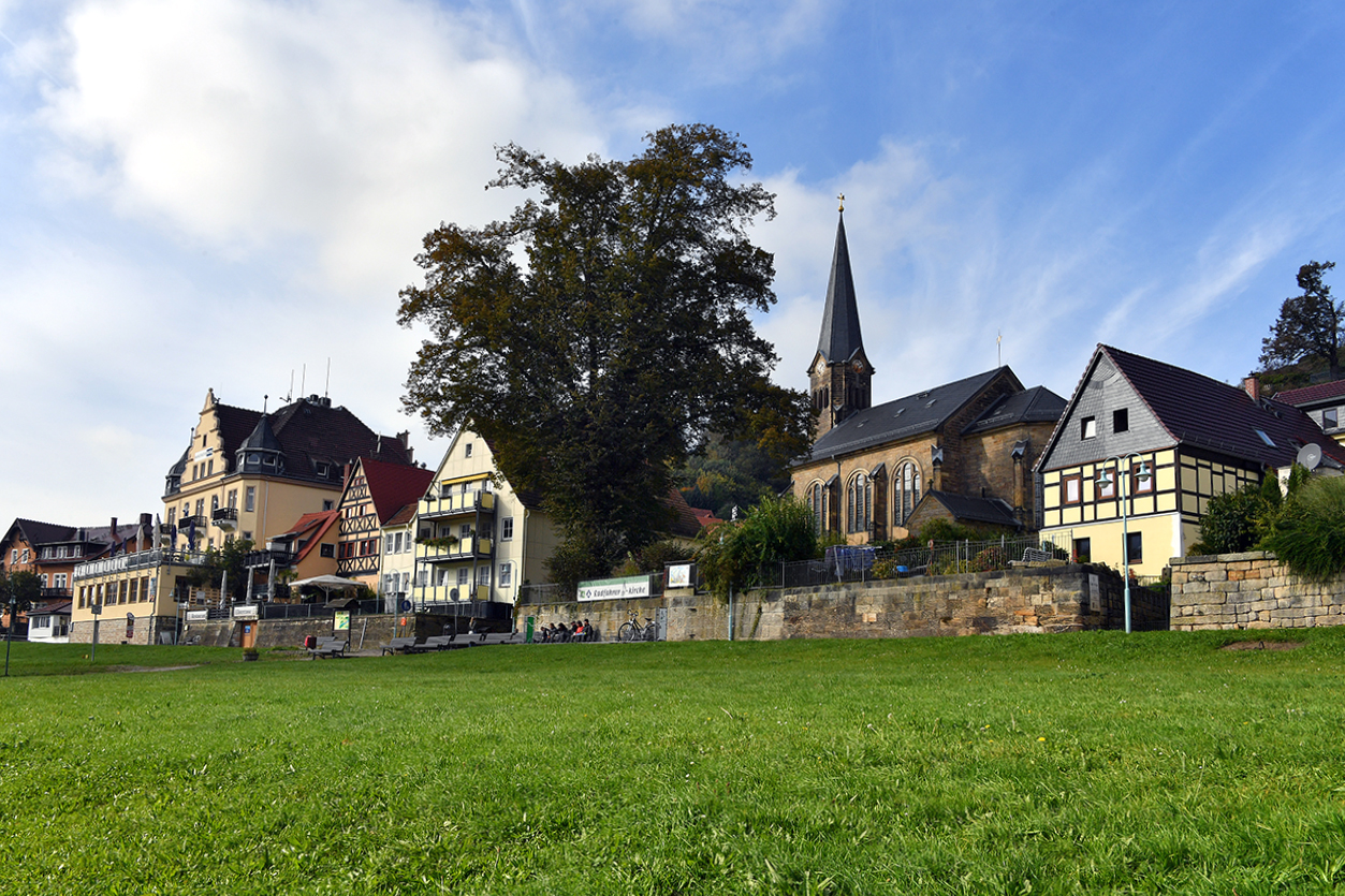 Stadt Wehlen - Panorama von der Elbe